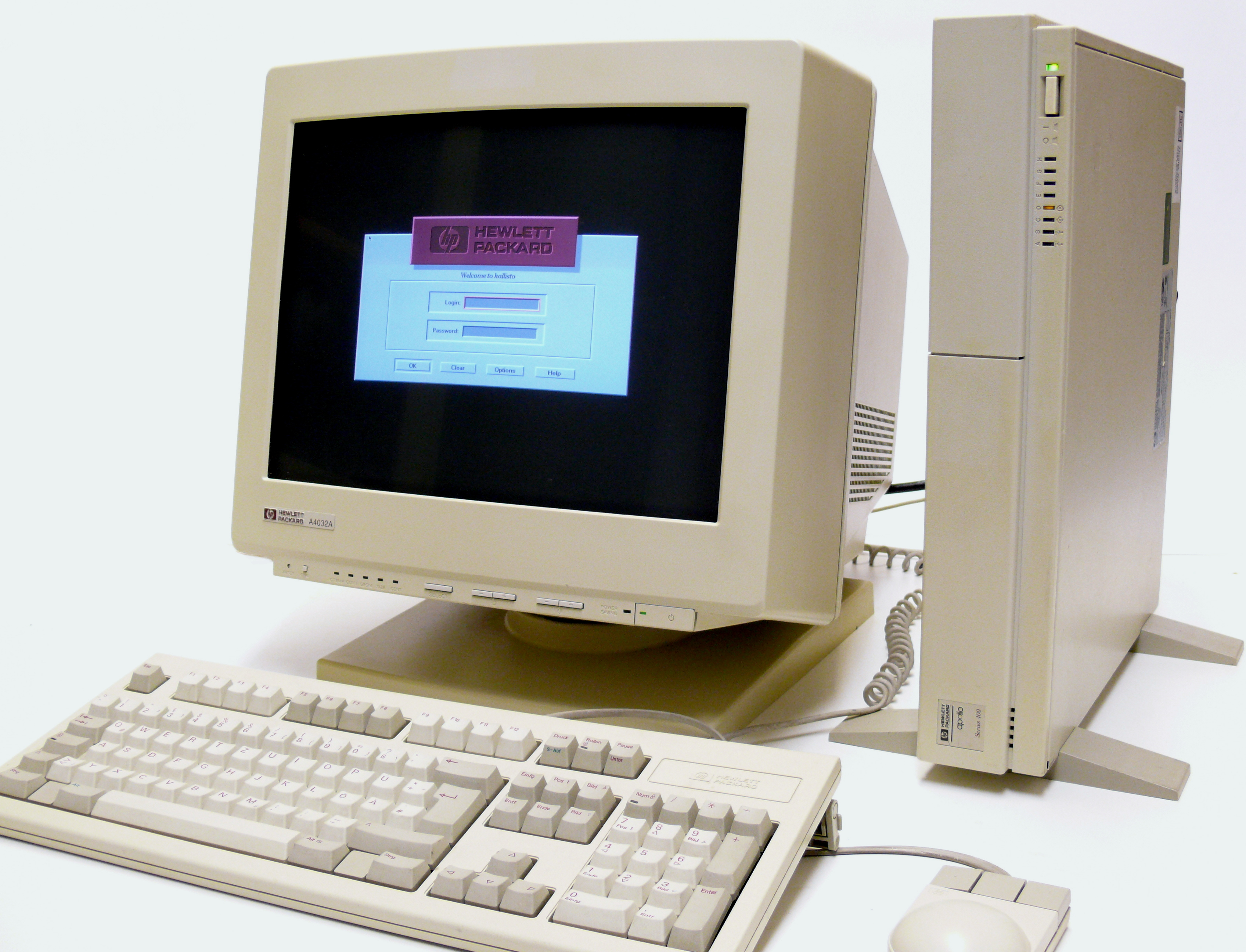 Hewlett Packard HP9000 Unix Workstation Modell 425, HP9000/425, Series 400, Motorola 68040 CPU/FPU, 25 MHz, max 48 MByte RAM, HPUX 9, VUE, SCSI, HIL, HP A4032A 17 inch CRT